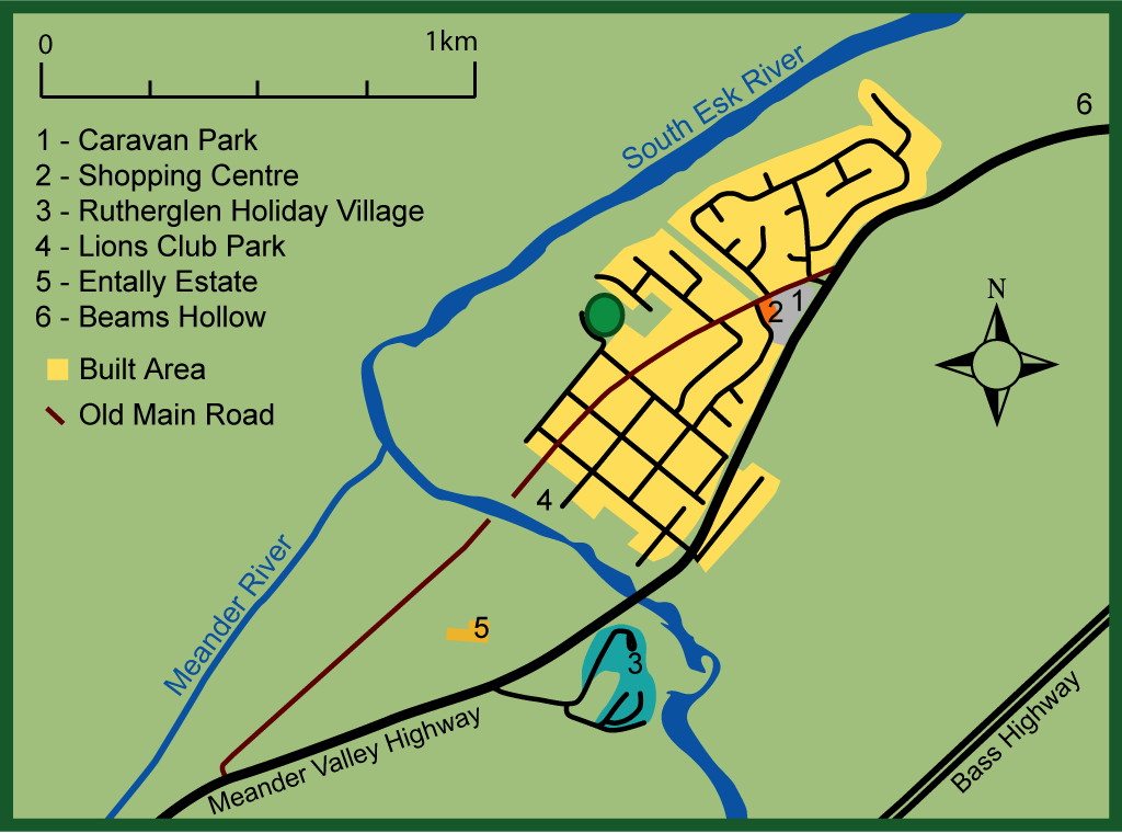 Map of Hadspen, Tasmania. Based loosly on an aerial map (from page 6 of the October 2011 HADSPEN OUTLINE DEVELOPMENT PLAN - local street directory and some creative licence in terms of the exact boundary of the built area and river's path.